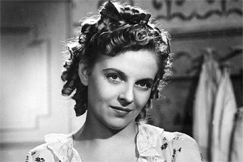 Finnish actress Regina Linnanheimo.